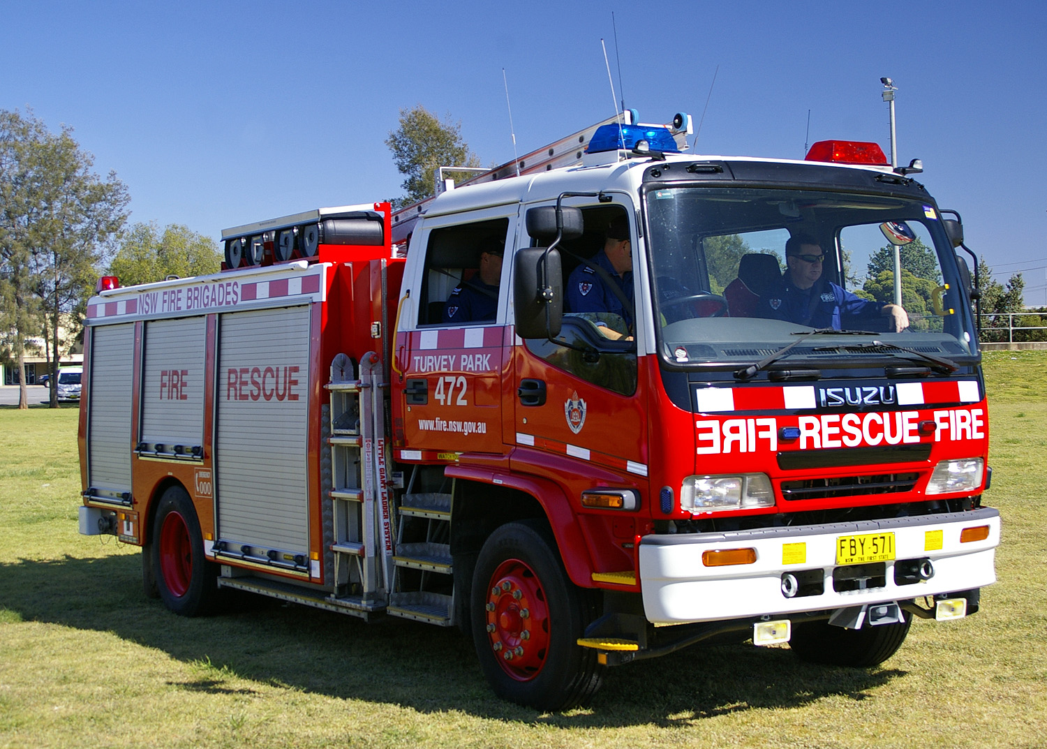 New South Wales Fire Brigades Pumper Class 2 and rescue truck. Model: Isuzu FTR900. With "FIRE" in mirror writing ("ERIF").